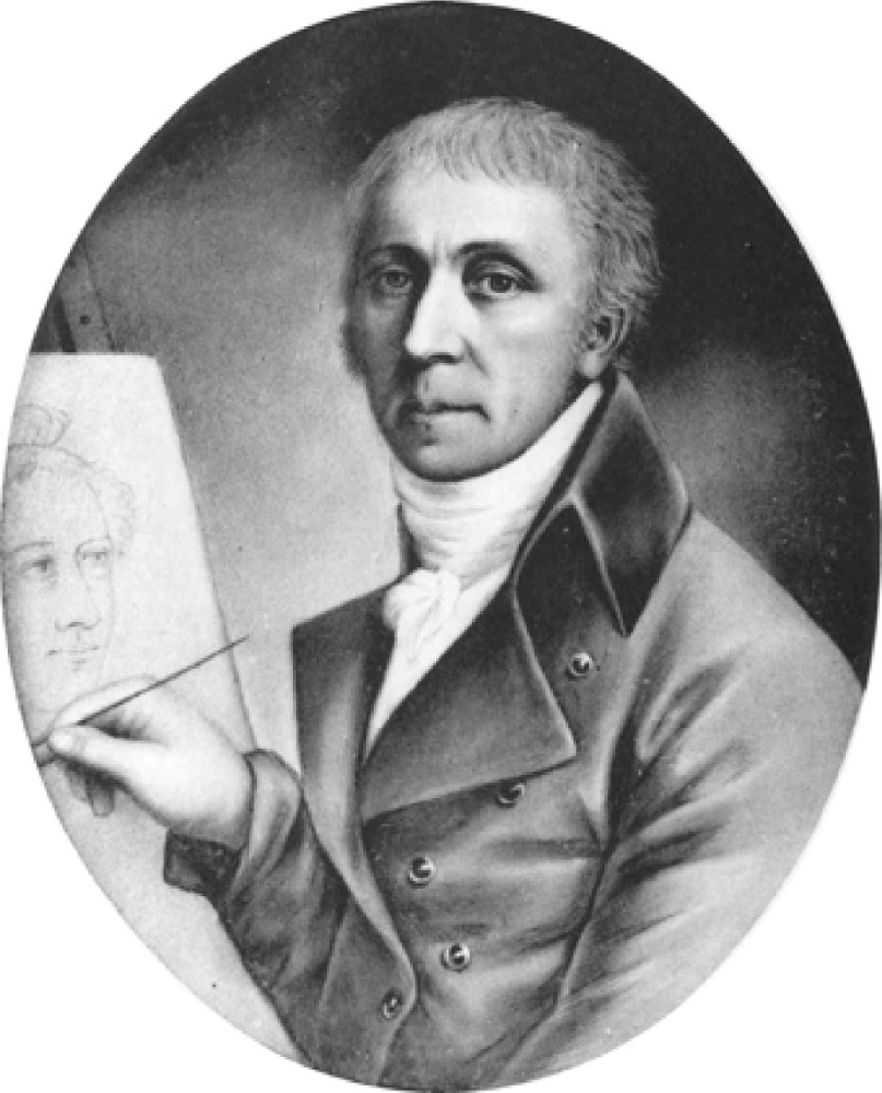 Depicted person: Johann Philipp Bach